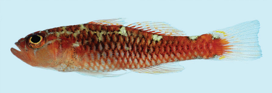 Trimma caesiura male, 24 mm, Babeldaob Island, Palau